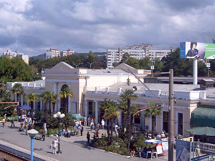 Adler railway station, Adler (Sochi)